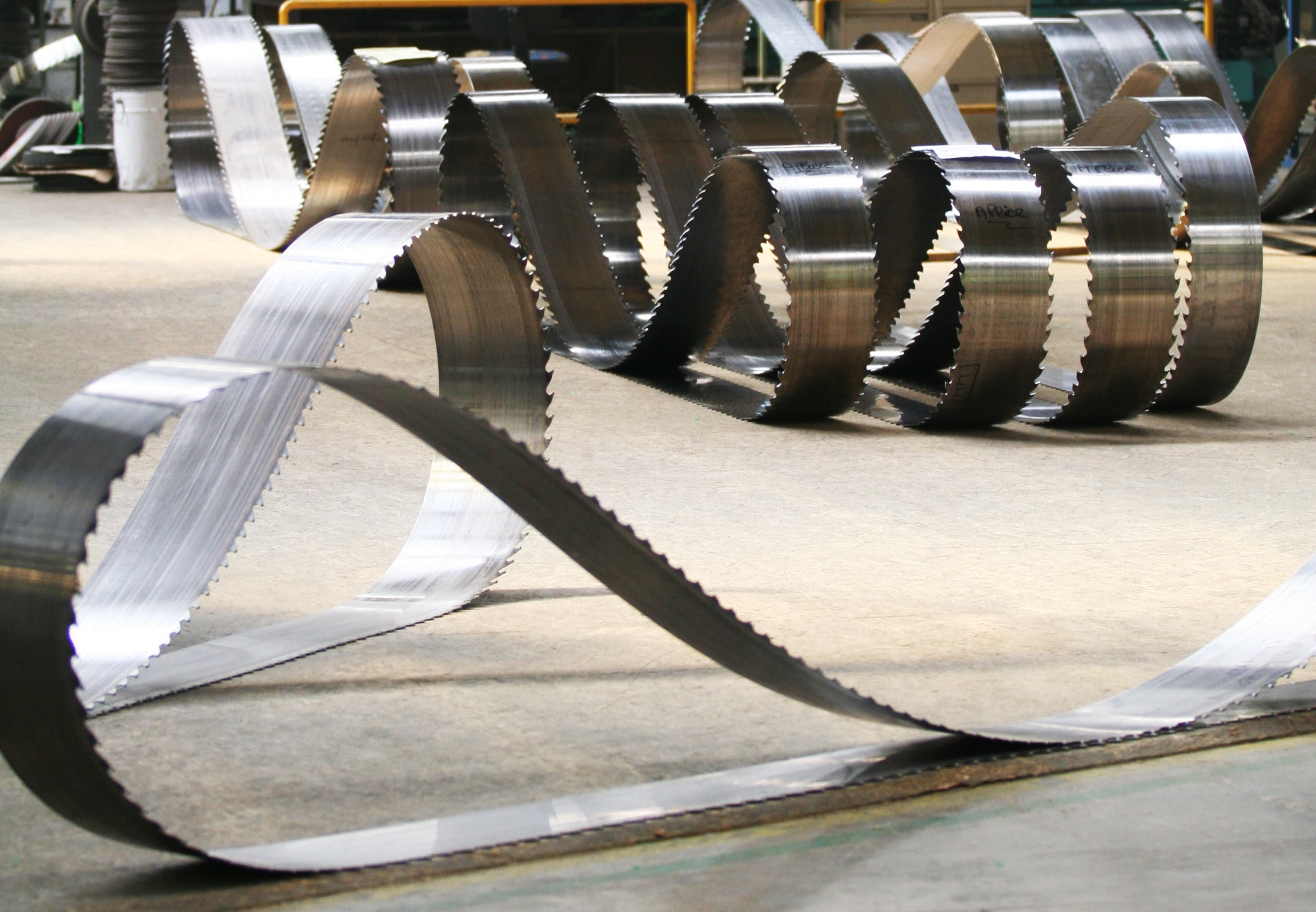 Band saw blades from French Manufacturer - Forezienne MFLS